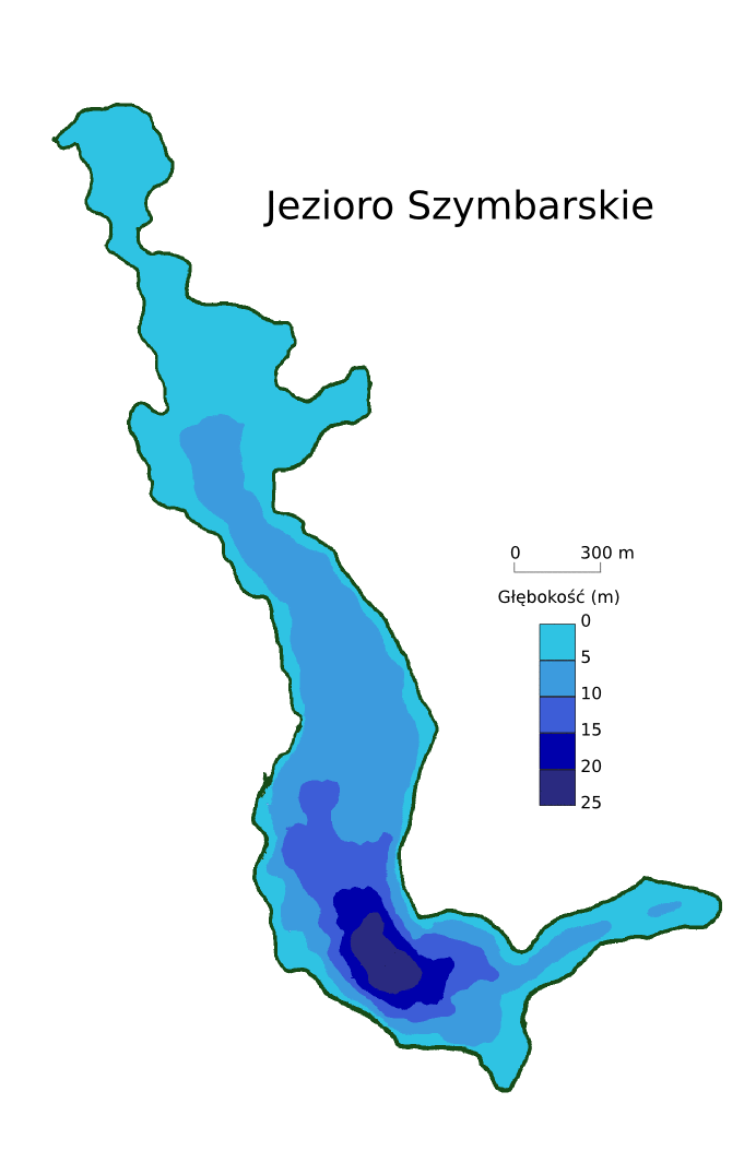 bathymetry of Szymbarskie Lake, POLAND